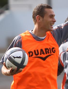 Grégory Bourillon, player from the FC Lorient during a practice in september 2010